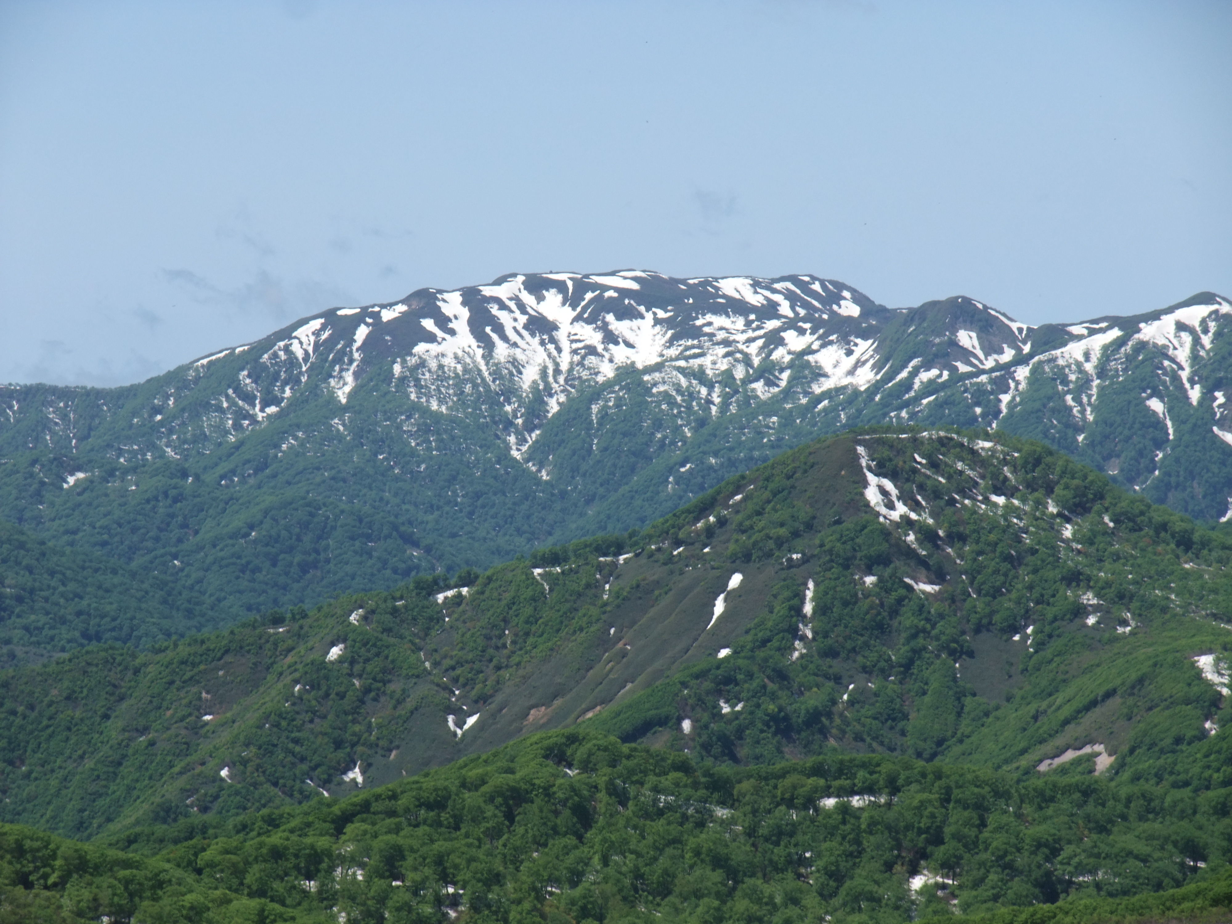 Mount Shirakami seen from the southeast. Taken from Mount Futatsumori.